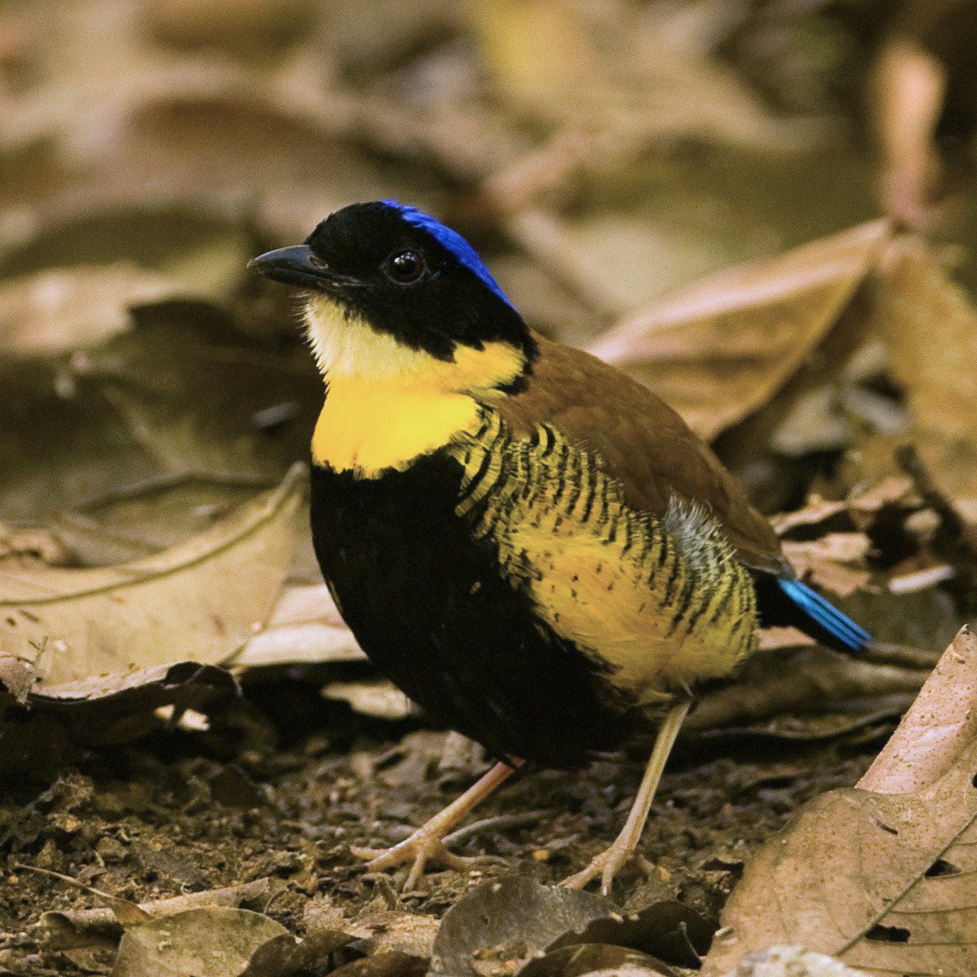 Khao Nor Chu Chi NP, Thailand. Red Data Status "endangered".